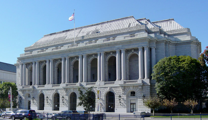 San Francisco's War Memorial Opera House, morning October 31, 2005.Composite image of two pictures with trolley wires and wire shadows removed by User:Leonard G.